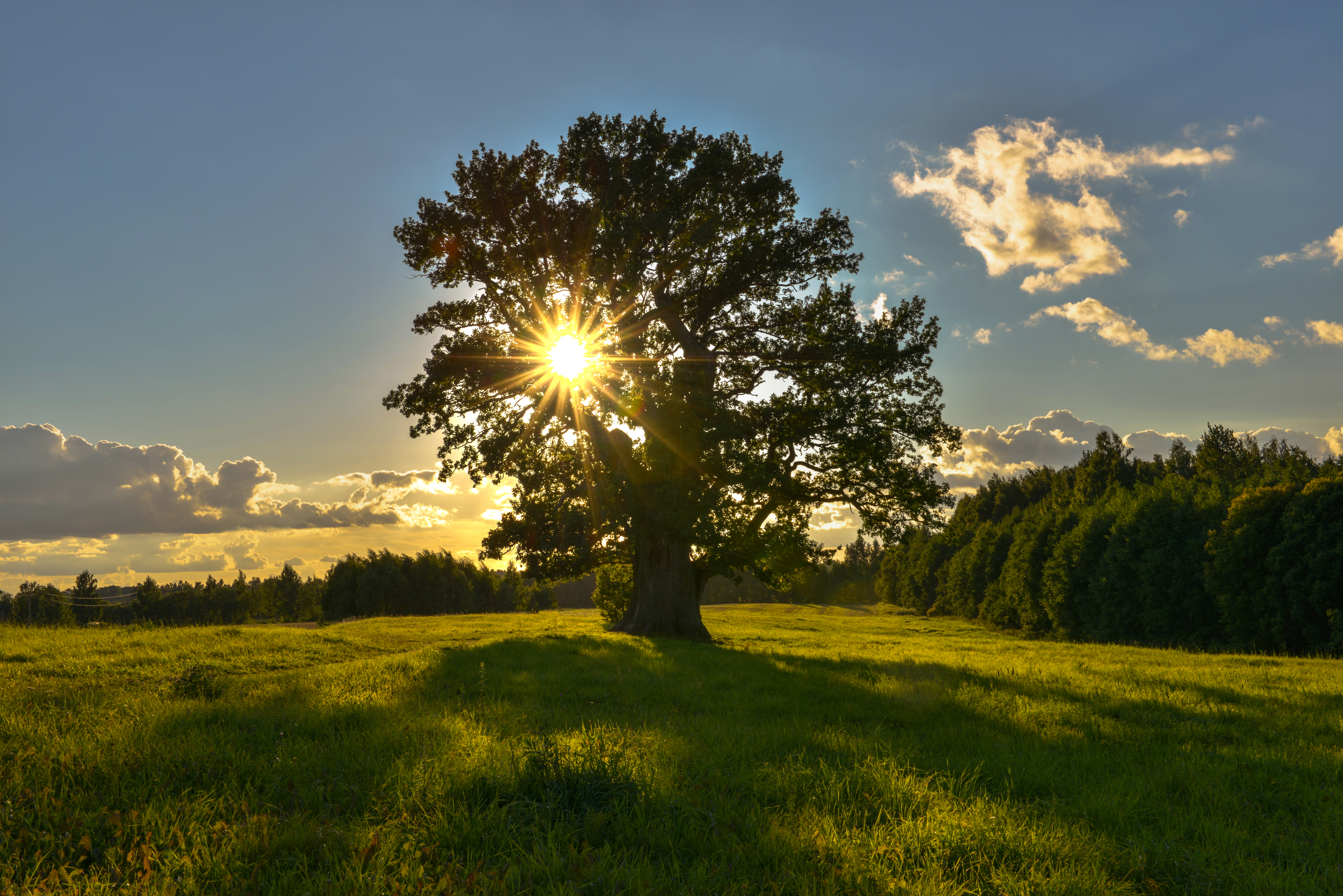 Tamme-Lauri oak. The oldest tree in Estonia. Tamme-Lauri oak is depicted on the back side of Estonian ten kroon banknote.